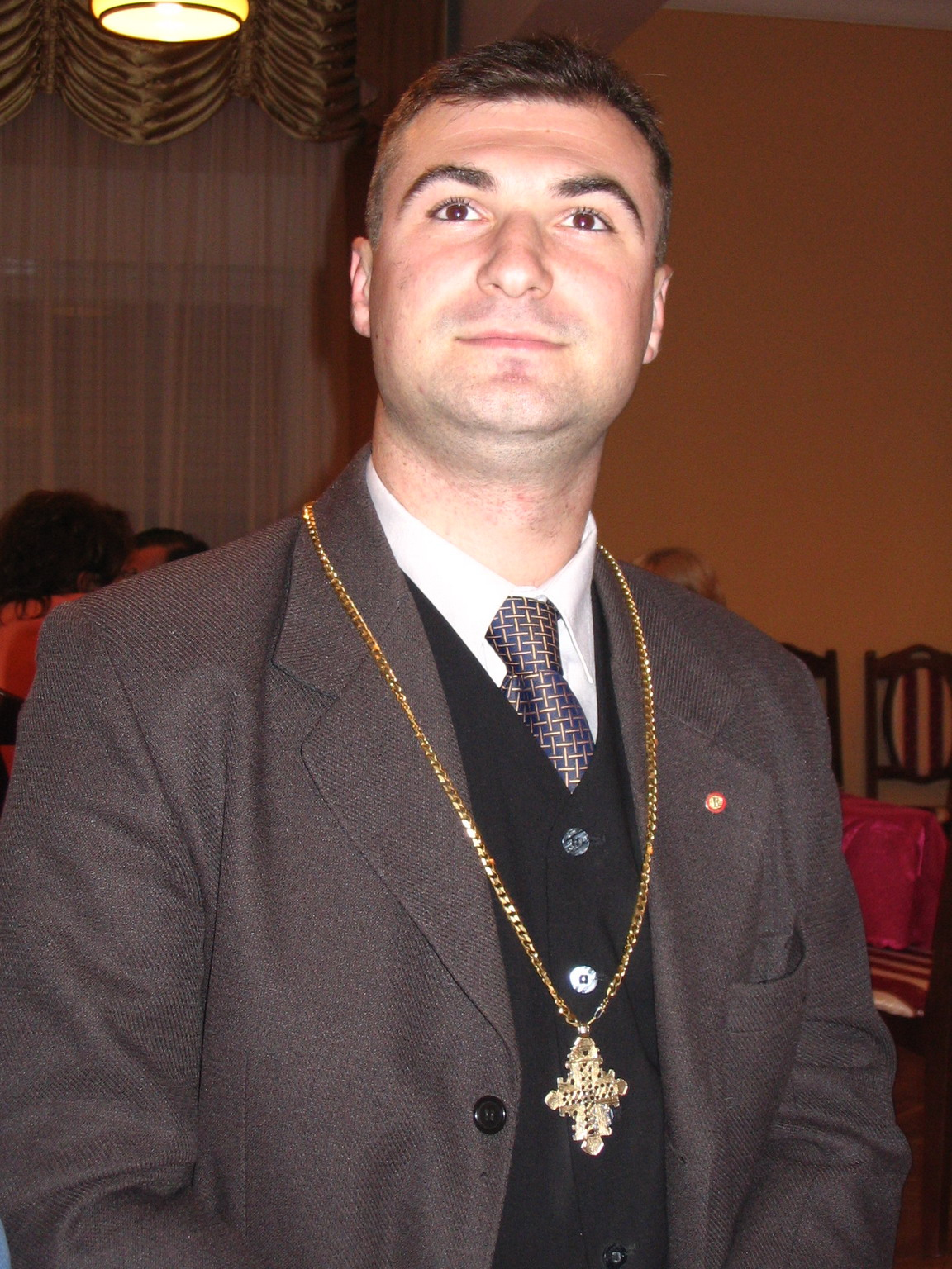 Serbian conductor Marko Nešić, in Kragujevac, Serbia.